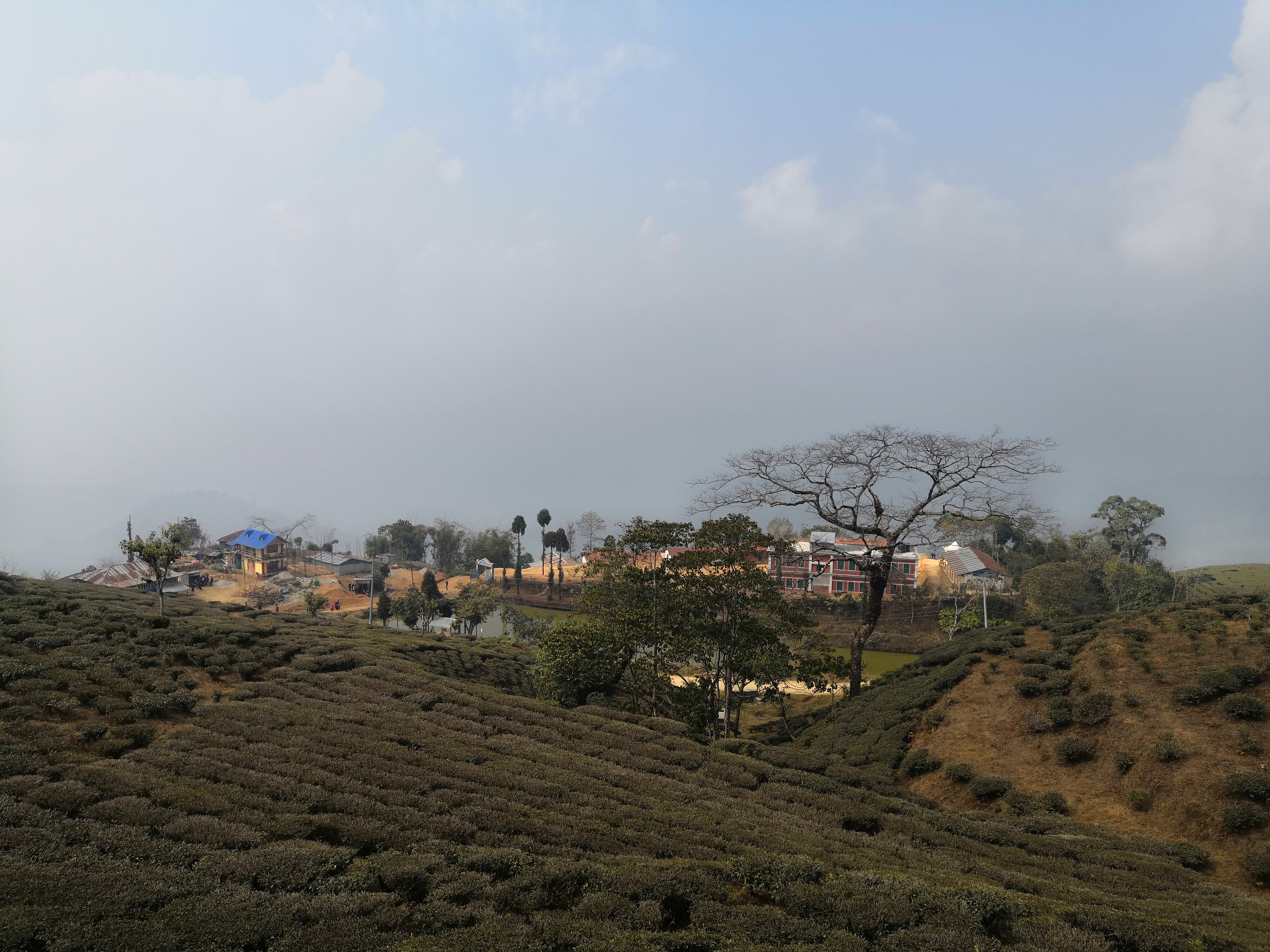 NEPALESE